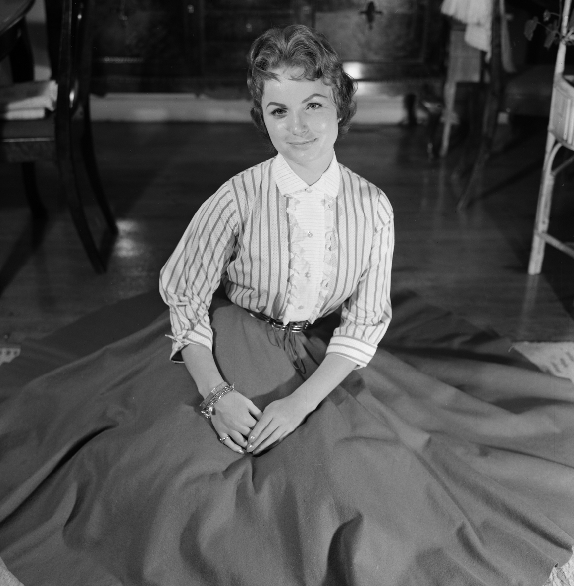 Norwegian singer and actor Anita Thallaug in her own home.